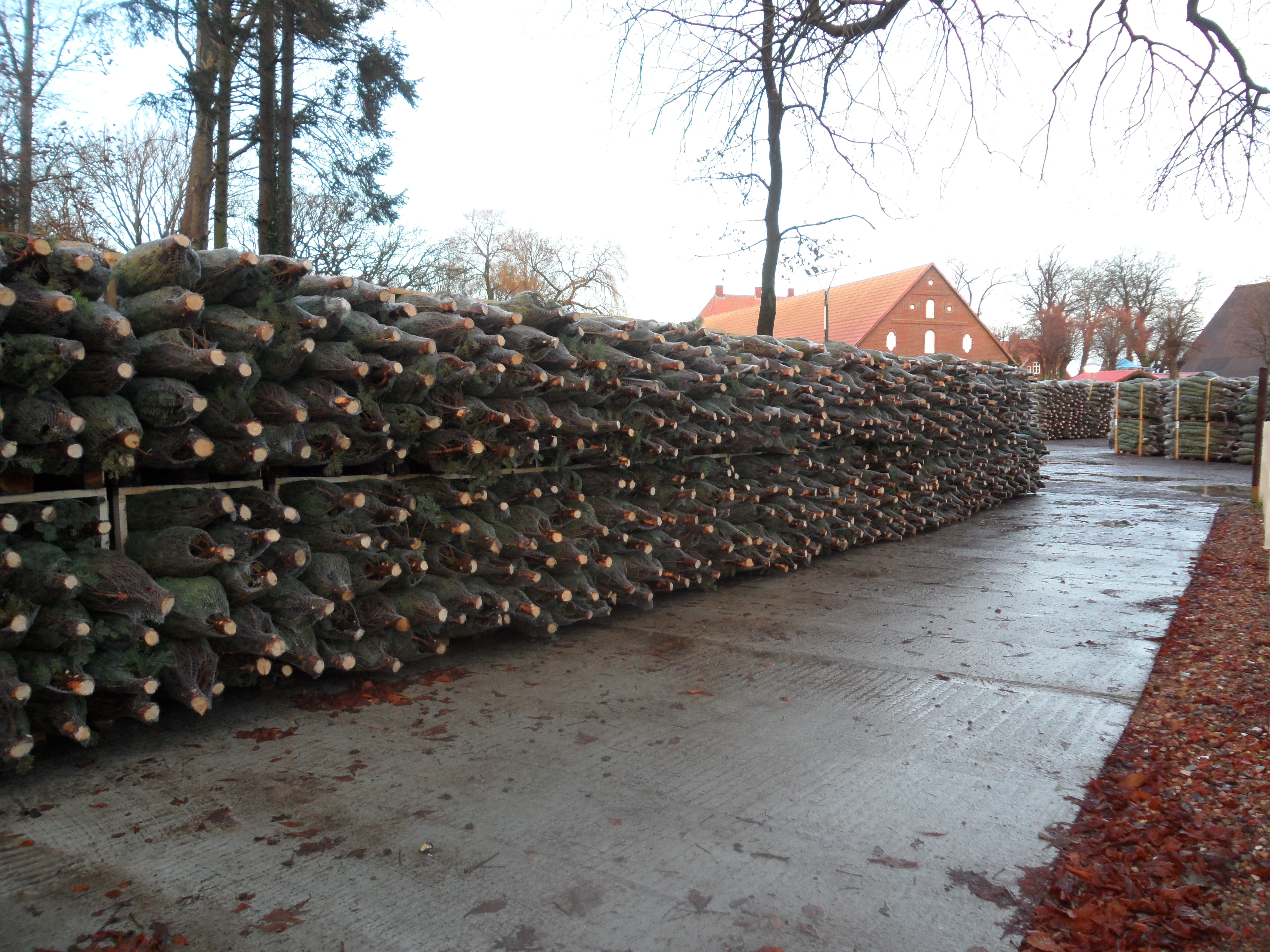 Ready prepared Christmas trees for truck transportation